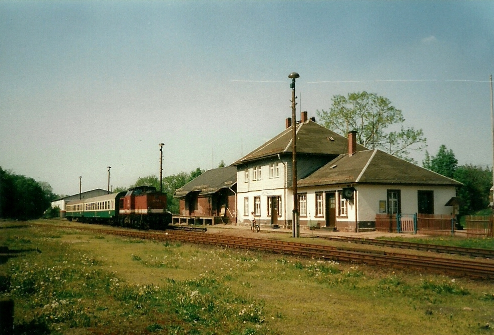 A regular train at Langenau (Brand-Erbisdorf, Mittelsachsen district, Saxony) in May 1997. The railway line from Brand-Erbisdorf to Langenau has been closed a few days later.